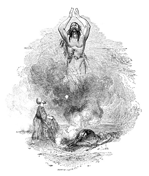 genie liberated from the bottle